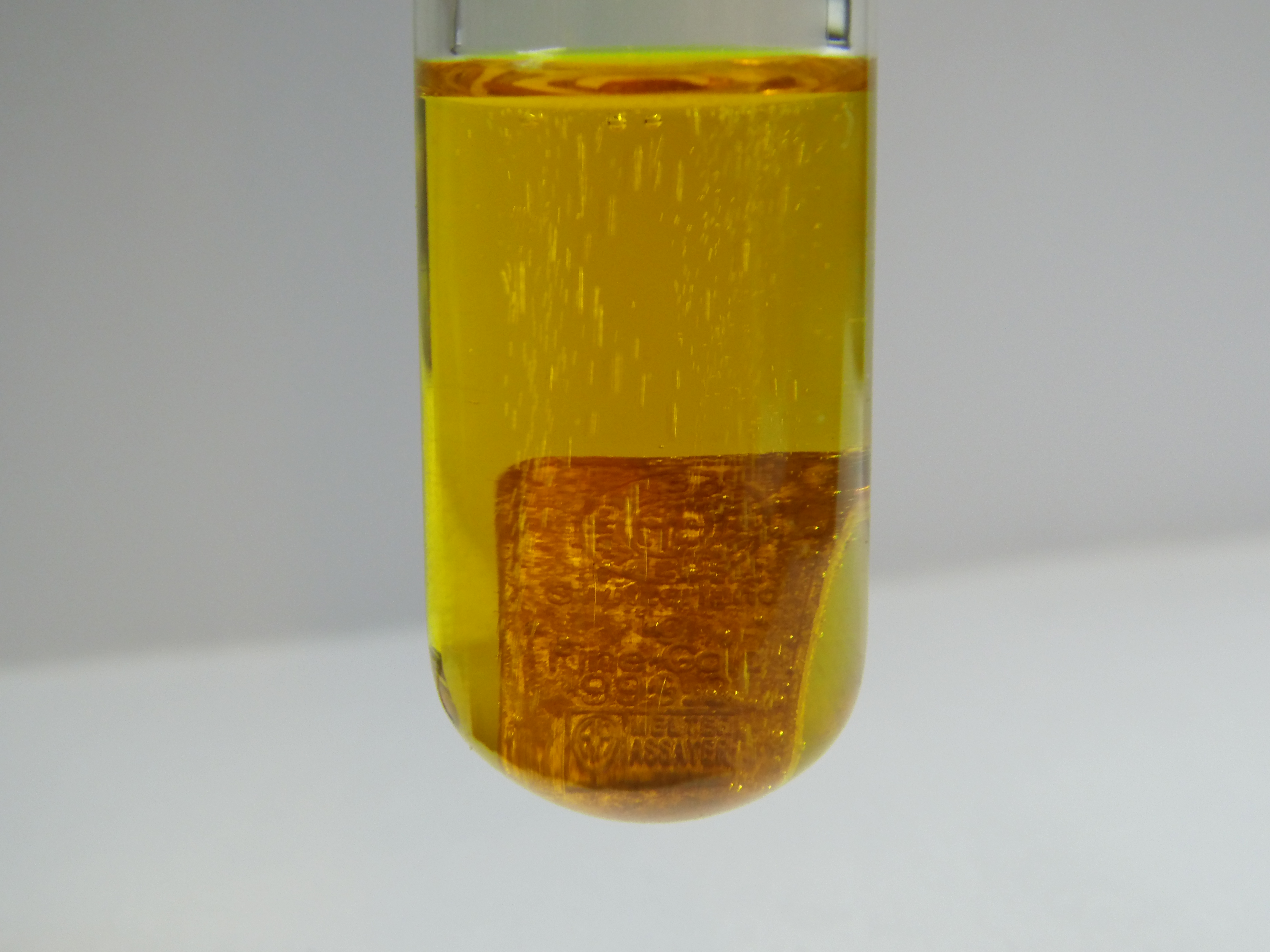 Dissolution of gold in aqua regia (II)